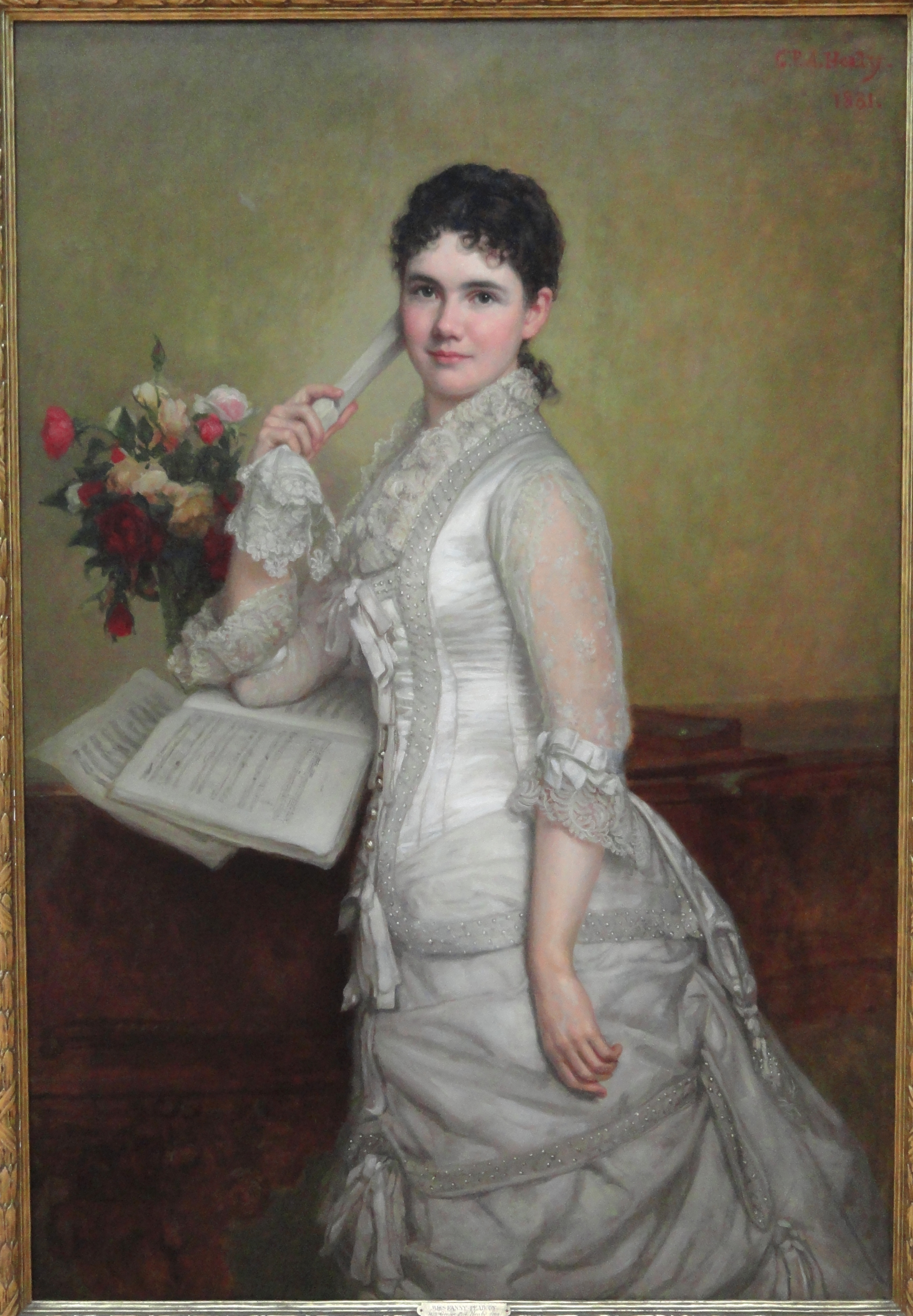 Exhibit in the Museum of Fine Arts, Springfield, Massachusetts, USA. This artwork is old enough so that it is in the public domain.